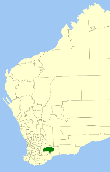 Description=Location of the Local Government Area in Western Australia